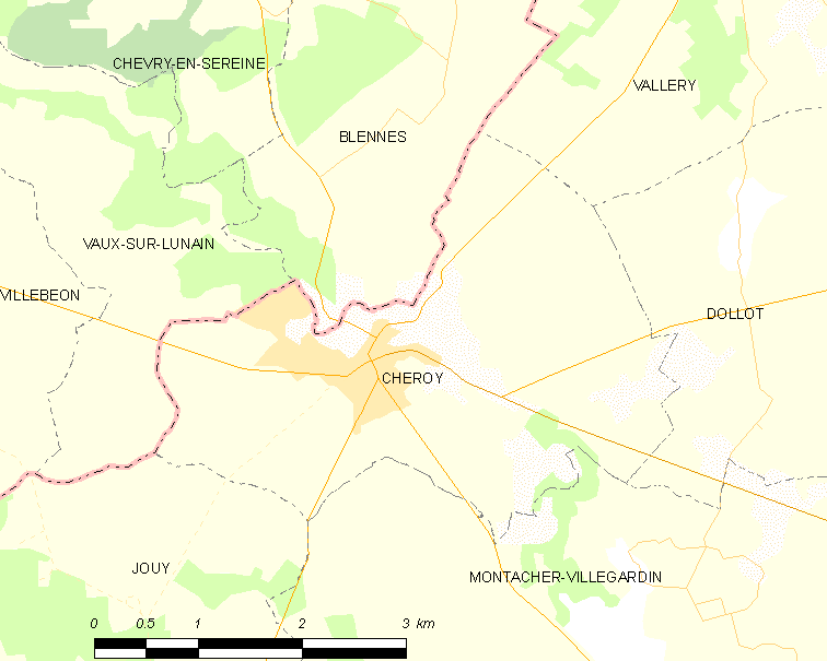 Map of French municipality Chéroy